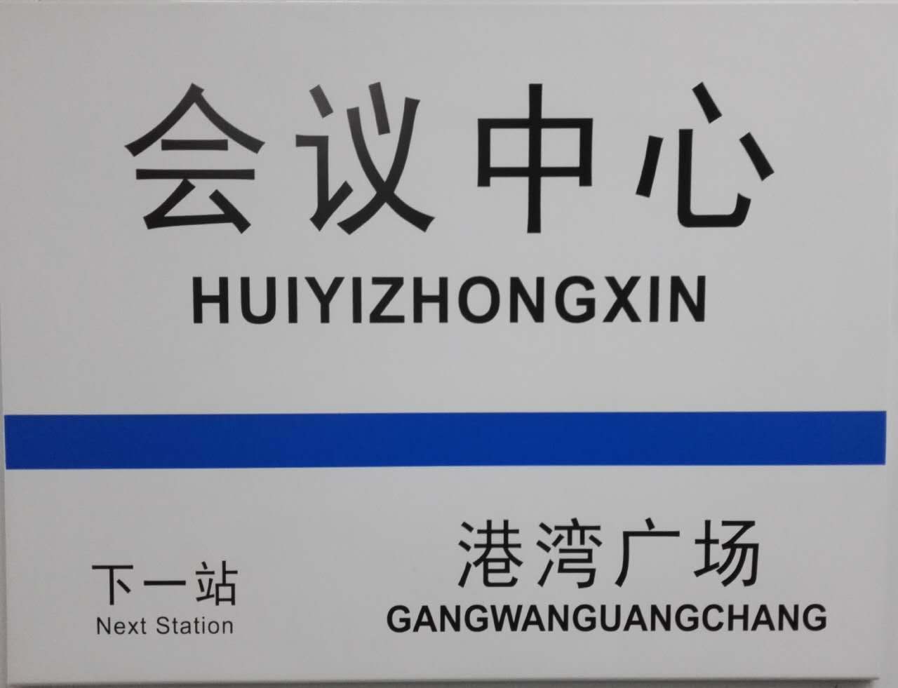 HUIYIZHONGXIN Station of Dalian Metro Line 2.